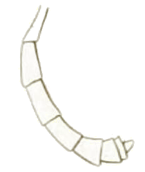 Abdomen of Blepharicera fasciata (Westwood 1842) described as Blepharicera fasciata Macquart 1843.